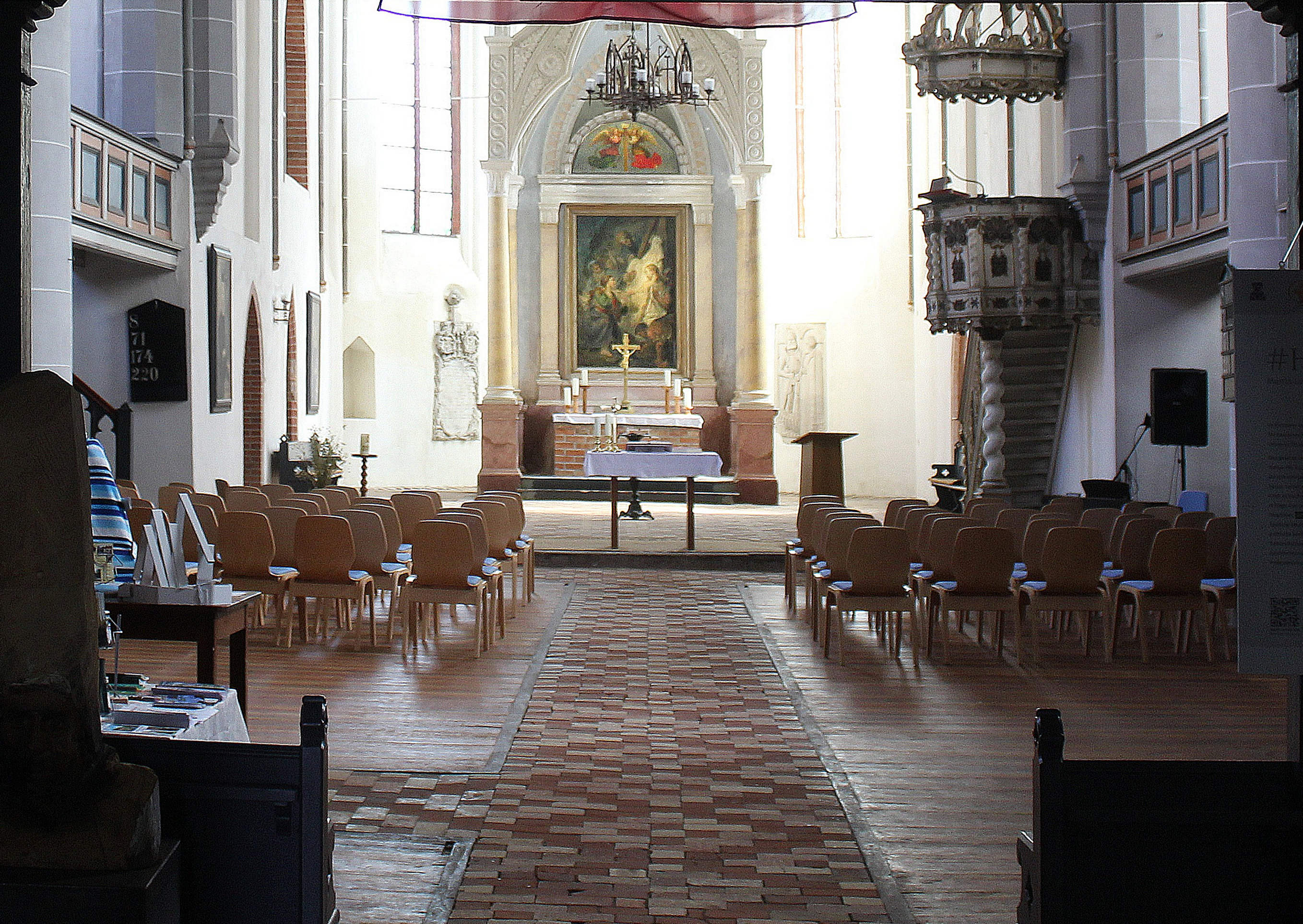 Havelberg, Saint Lawrence church, inner view